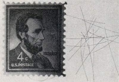 Monochrome image of 1954 US 4c stamp and West Ford Needles (space communication project) for comparison